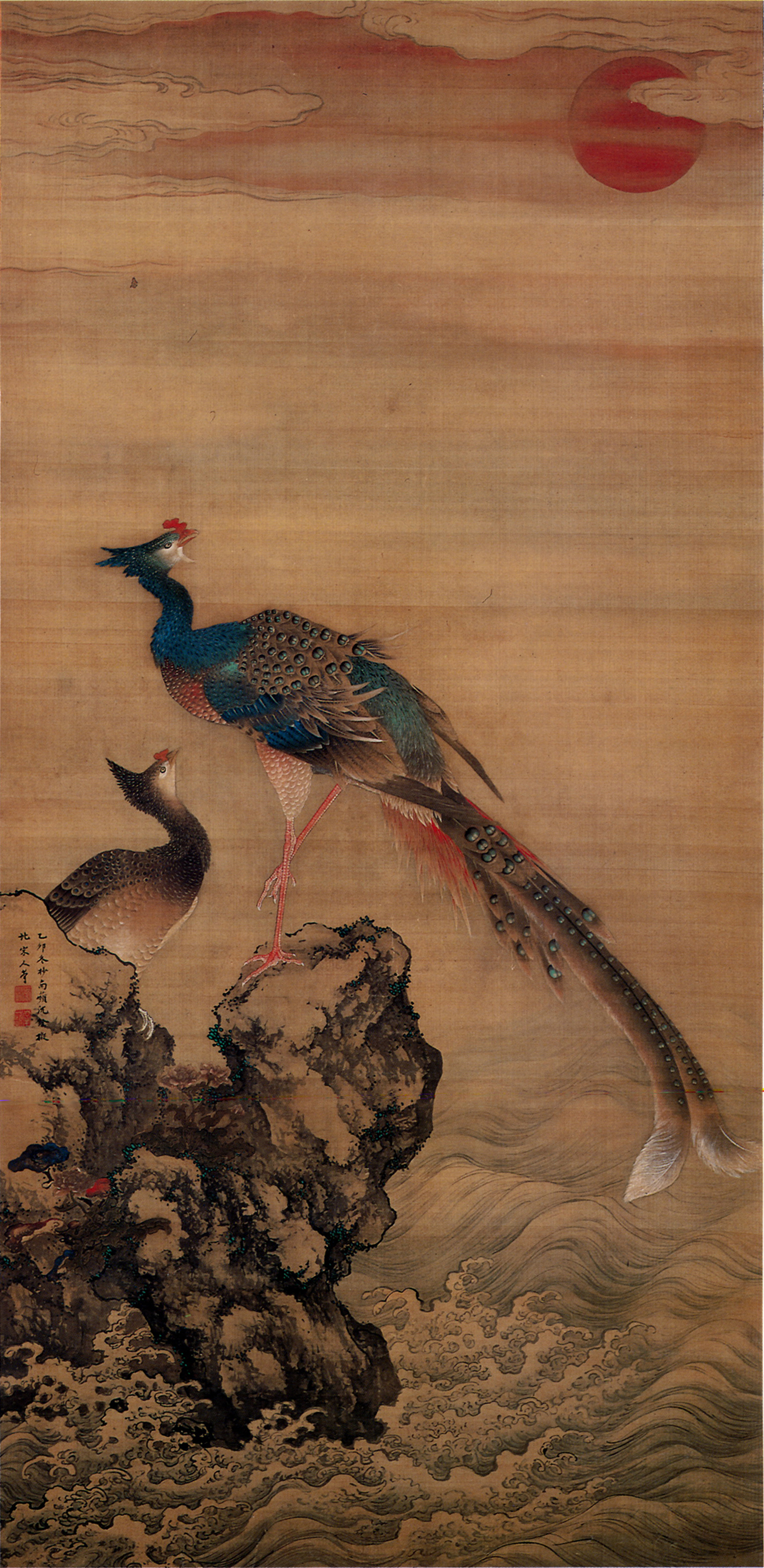 Shen Nanpi,Pair of Phoenixes in the Morning Glow,A Hanging scroll,Color on silk a Qing dynasty,1735.